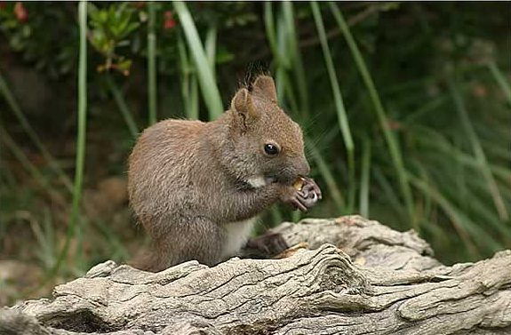 Sciurus vulgaris, bearn, France